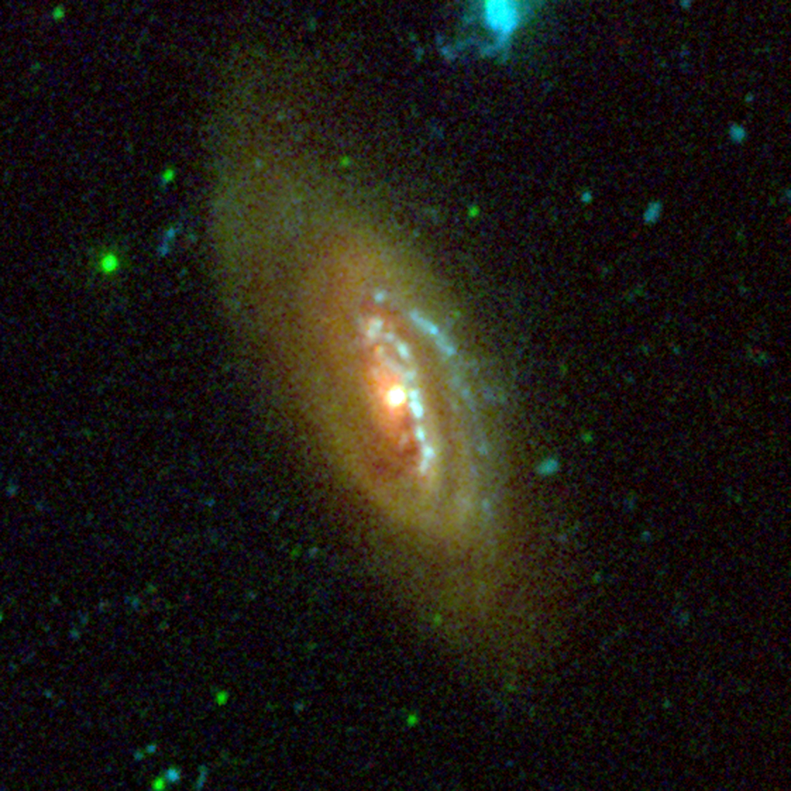 This image from NASA's Galaxy Evolution Explorer shows the galaxy NGC 4569, located about four million light-years away in the constellation Virgo. It is one of the largest and brightest spiral galaxies found in the Virgo cluster of galaxies, the nearest major galaxy cluster to our Milky Way galaxy. Blue represents ultraviolet light captured by the telescope's long-wavelength detector. Green shows ultraviolet light from the short-wavelength detector, and red shows red visible light from the Palomar 1.5-meter telescope, near San Diego. The Galaxy Evolution Explorer data was taken in March 2004.